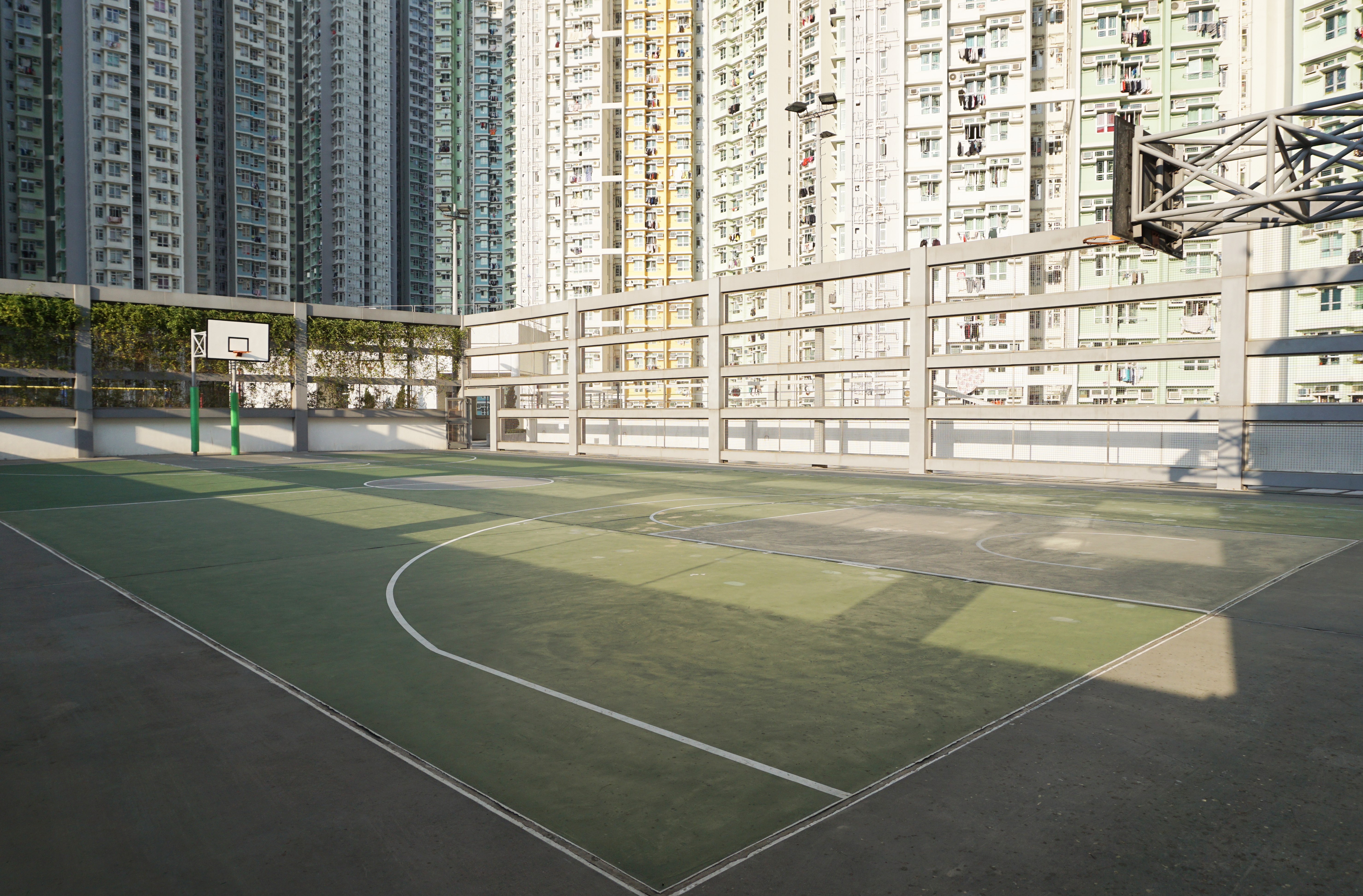 Kai Ching Estate in Kai Tak, Hong Kong.